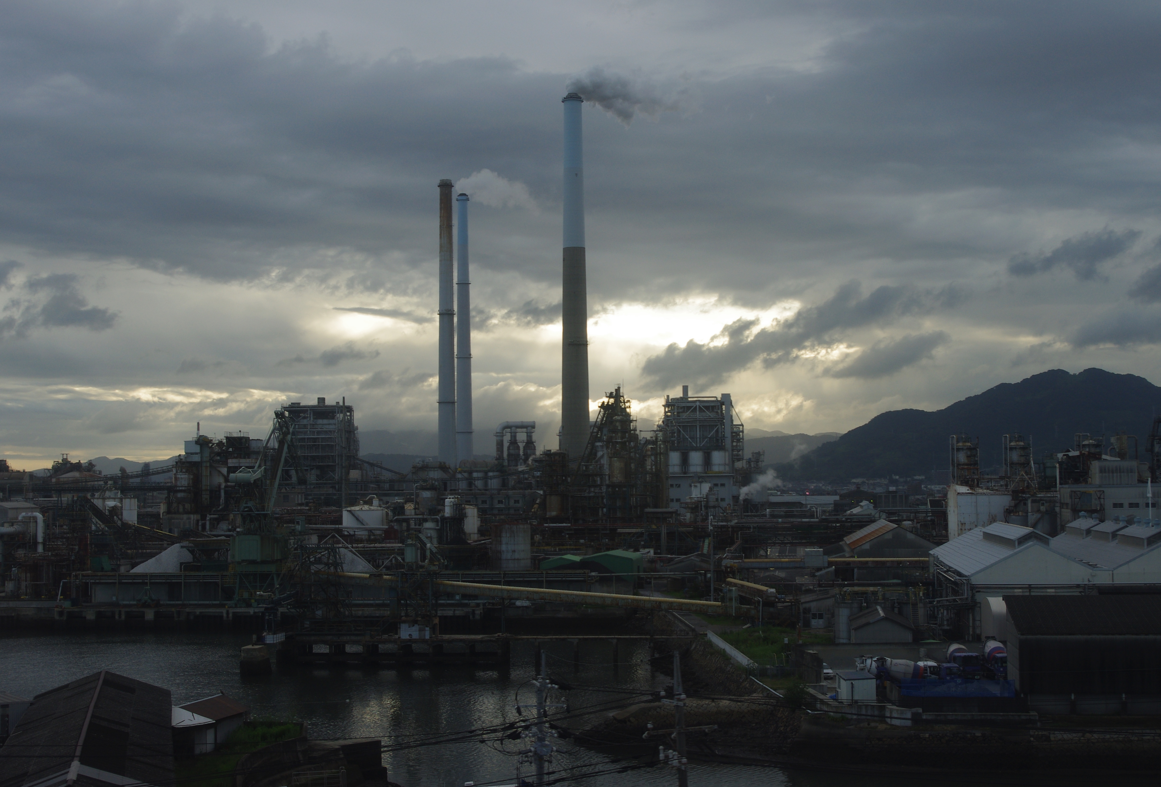 Factories of Tokuyama, Yamaguchi prefecture, Japan